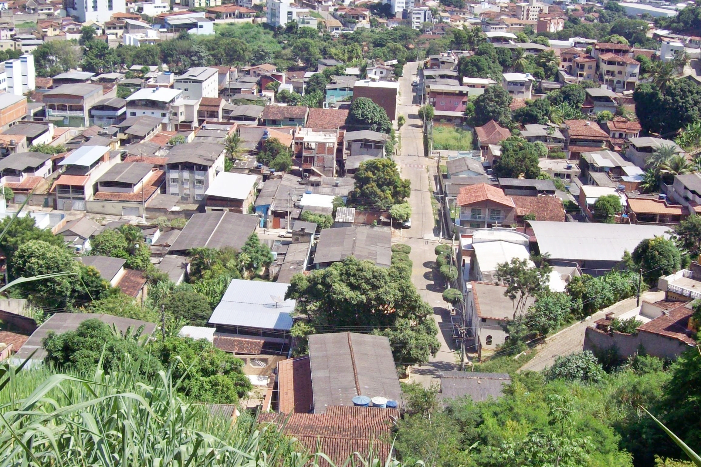 Partial view of the Santa Terezinha neighborhood, in Coronel Fabriciano, Minas Gerais, Brazil.